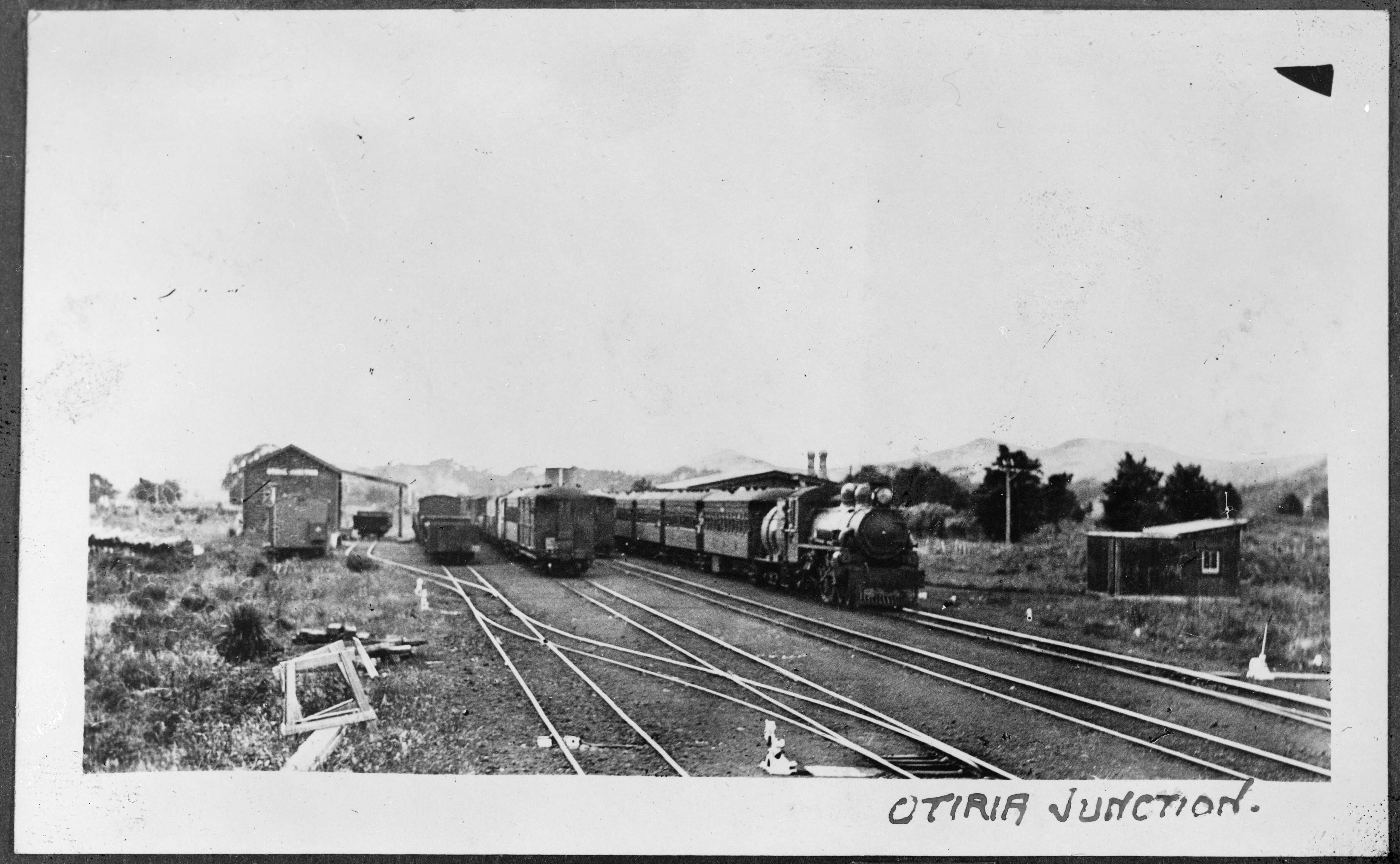 View of Otiria Junction, showing railway yards, the railway station, and several trains. Photographed by Albert Percy Godber, circa 1930s. This image is a film copy negative taken from an original print in Godber Album Vol 100, p 60 (PA1-o-194)